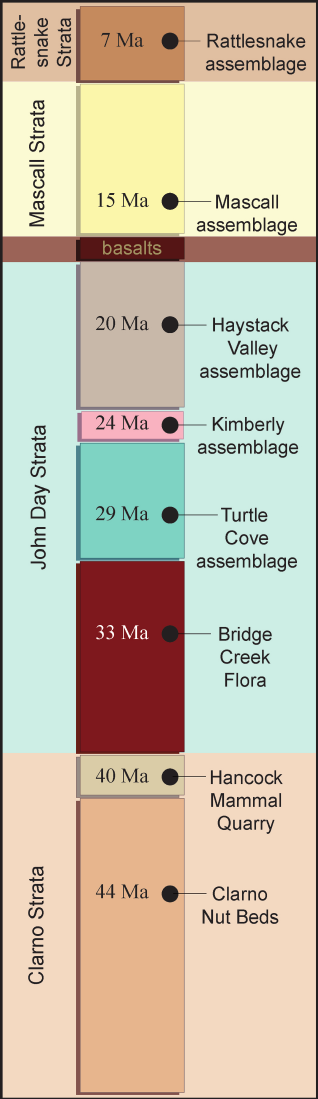 Geologic timeline for rock strata in John Day Fossil Beds National Monument in north-central Oregon, United States.